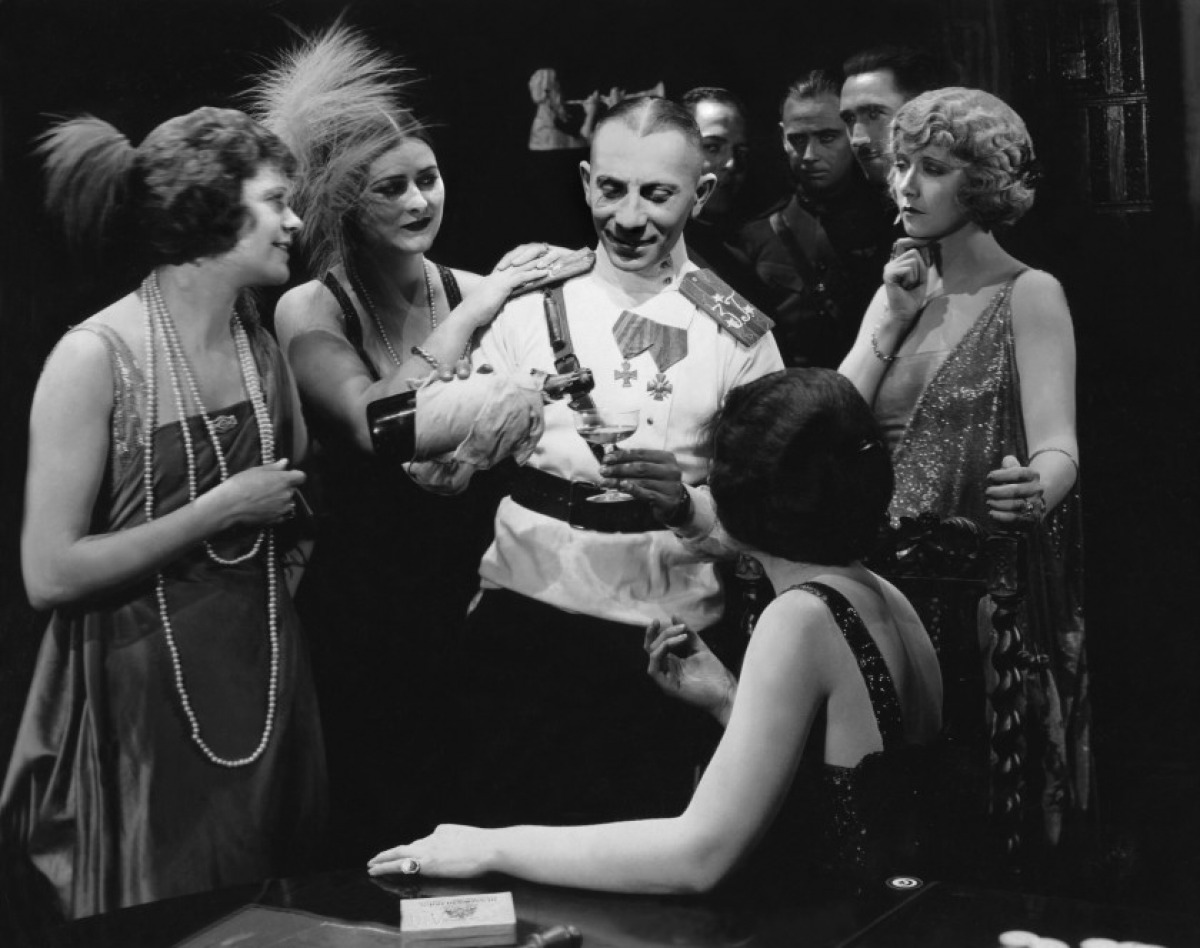 Erich von Stroheim & Mae Busch (right) in Foolish Wives - publicity still